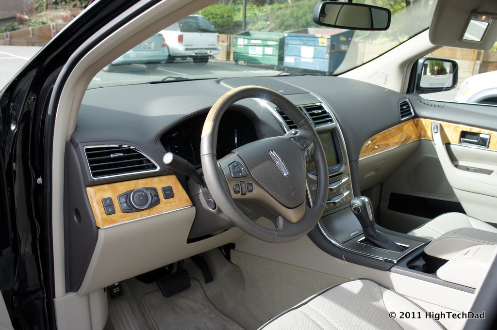 A view of the front driver's seat. 10 days with the Lincoln MKX, a high-tech crossover SUV. More details on the experience can be found at